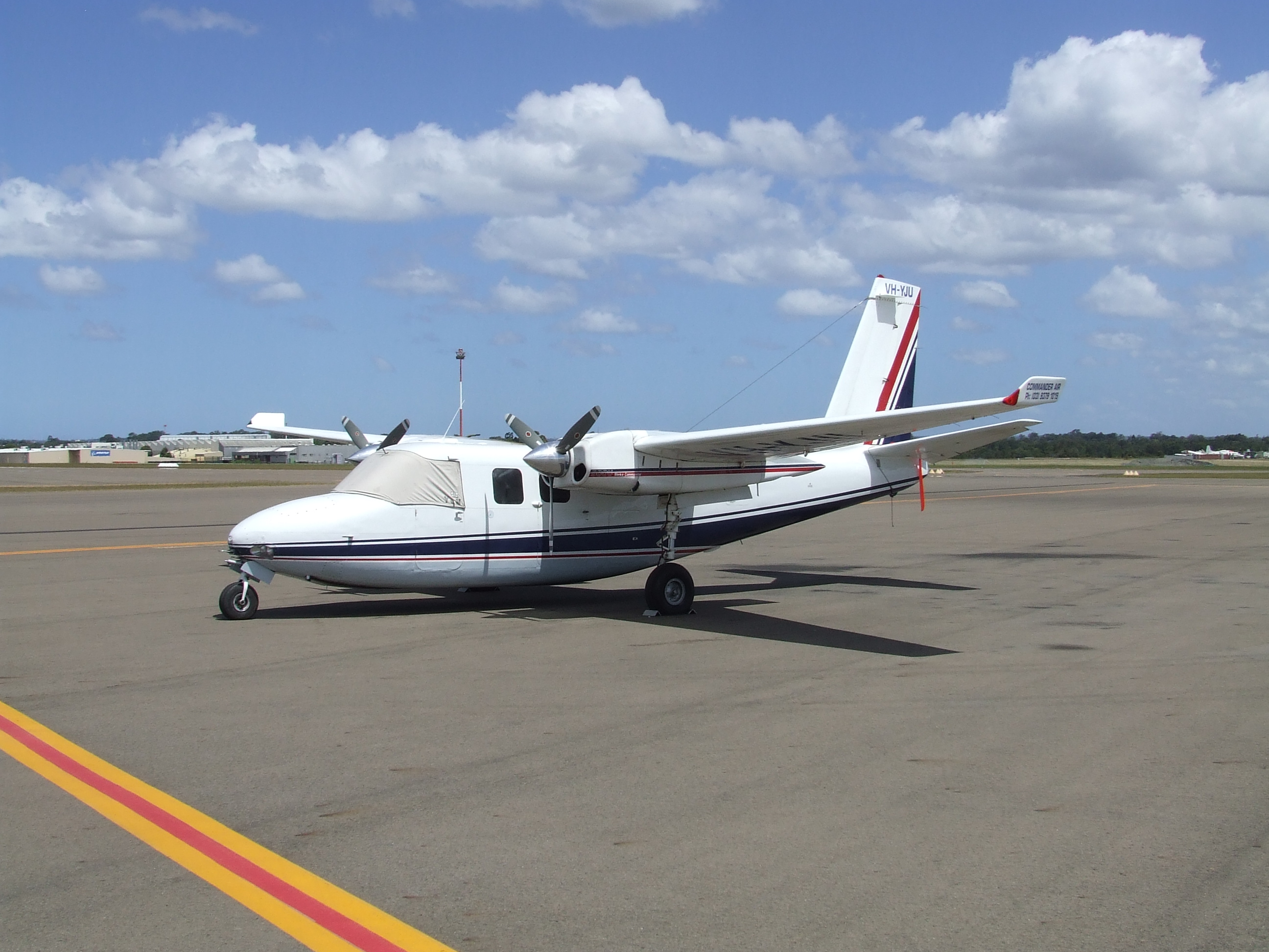 Aero Commander 500U Shrike Commander VH-YJU